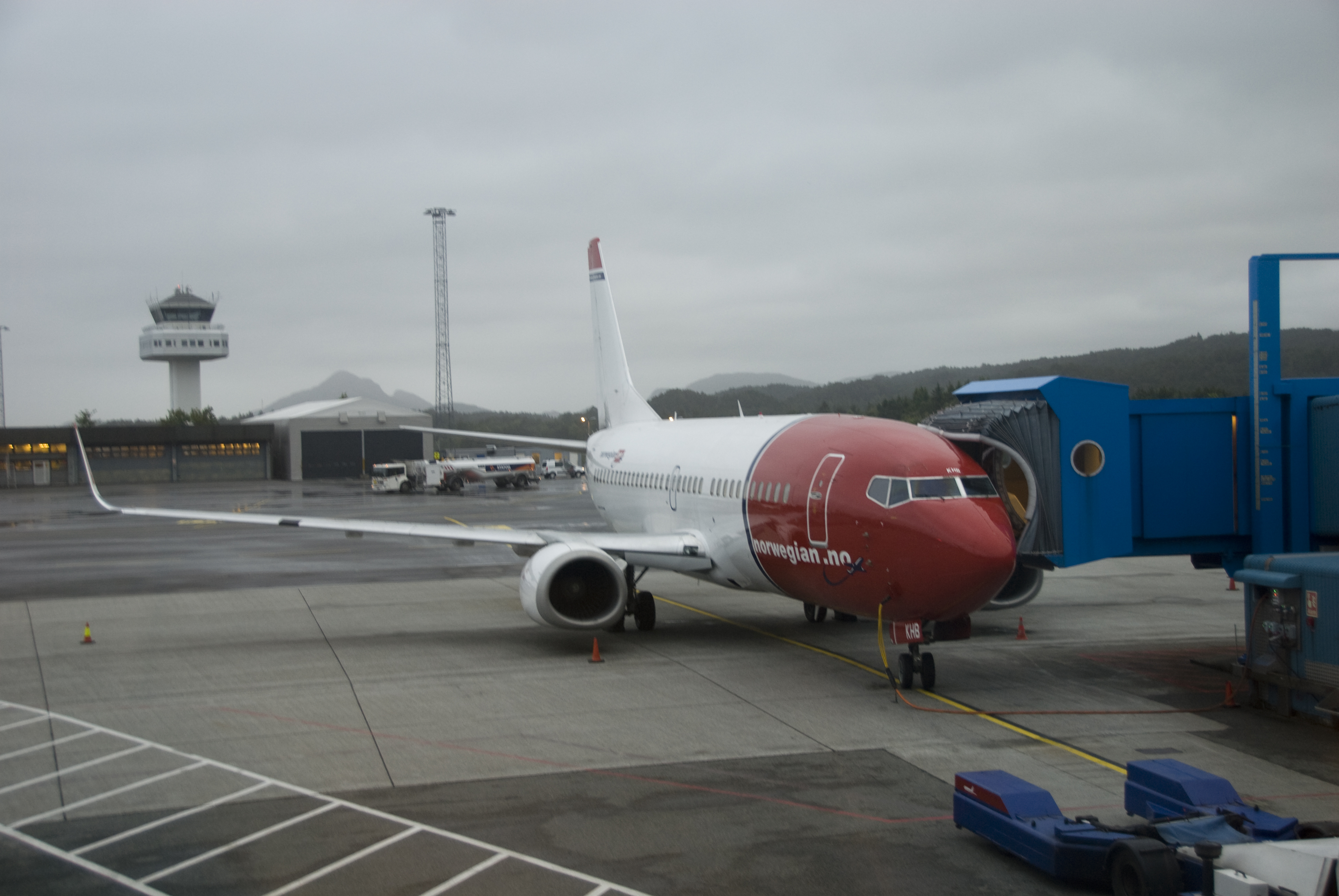 Norwegian Air Shuttle Boeing 737-300 LN-KHB at Bergen Airport, Flesland